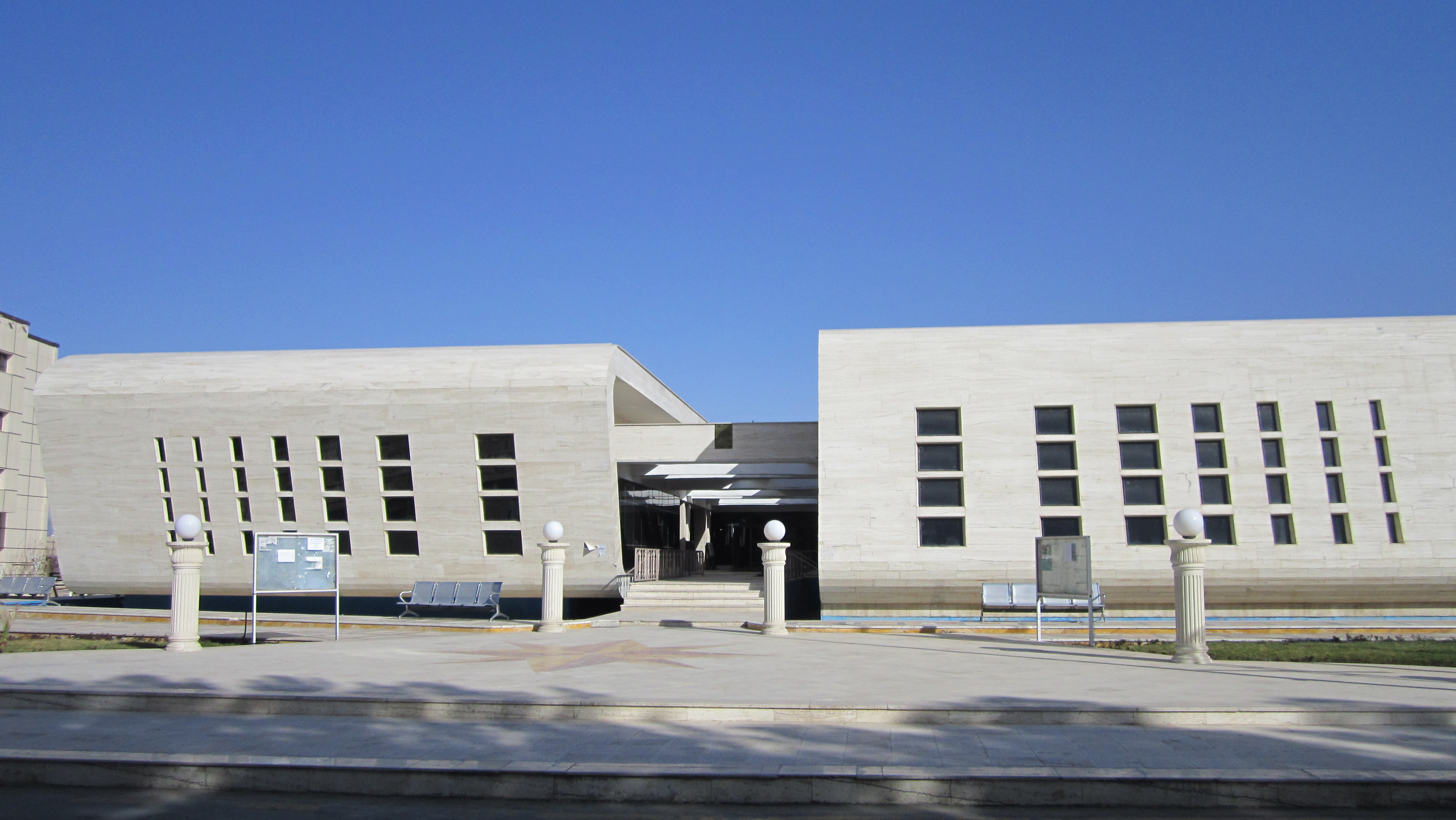 سالن غذاخوری دانشگاه سیستان و بلوچستان